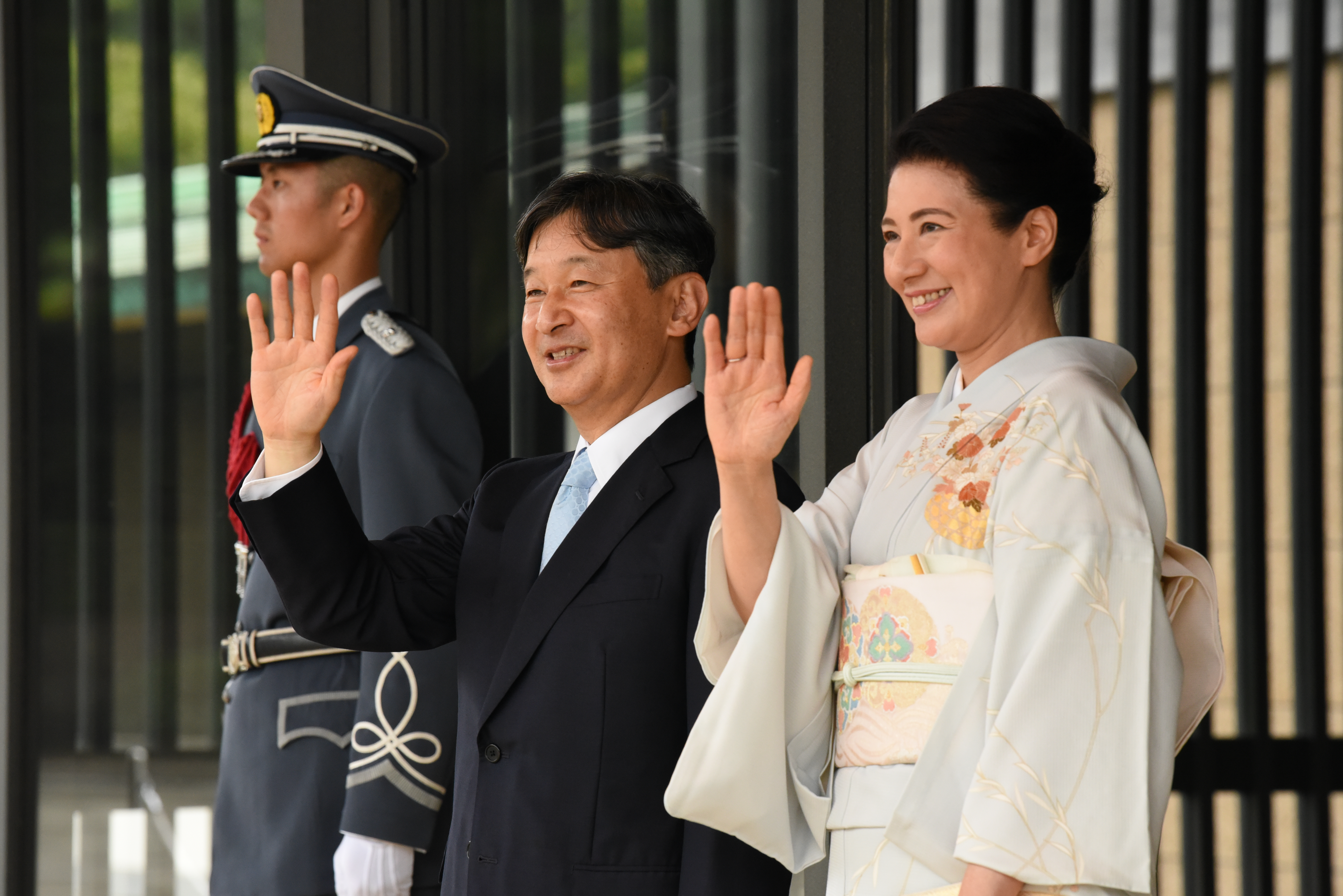 The Tea Reception at the Imperial Palace 宮中茶会